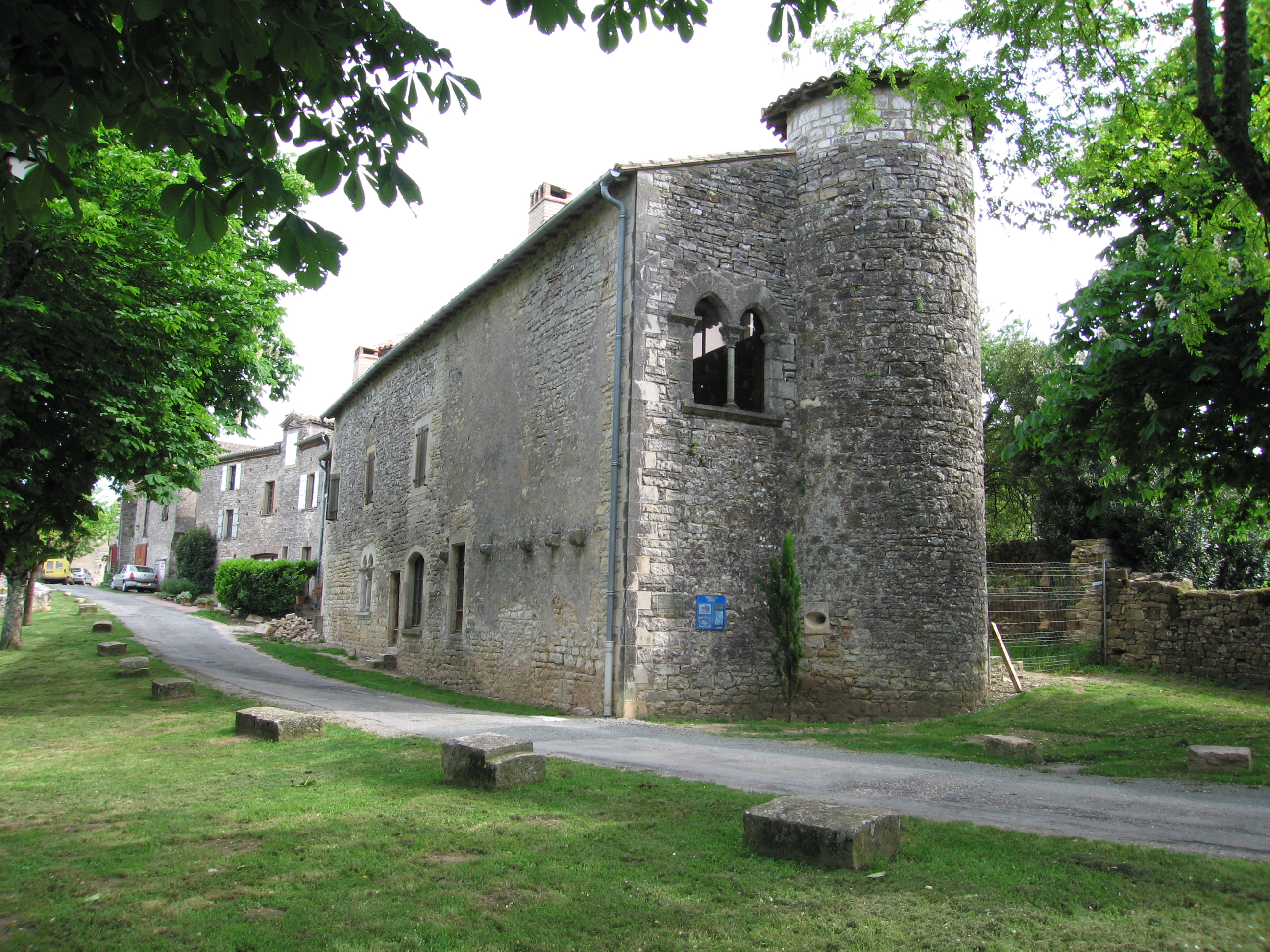 Guard's House in Puycelsi, Tarn, France. 15th century.